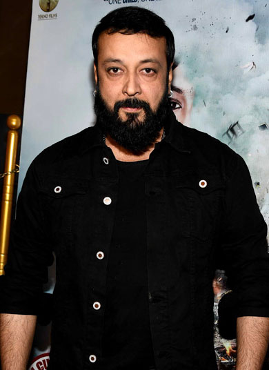 Santosh Shukla at the premiere of the movie Gul Makai.